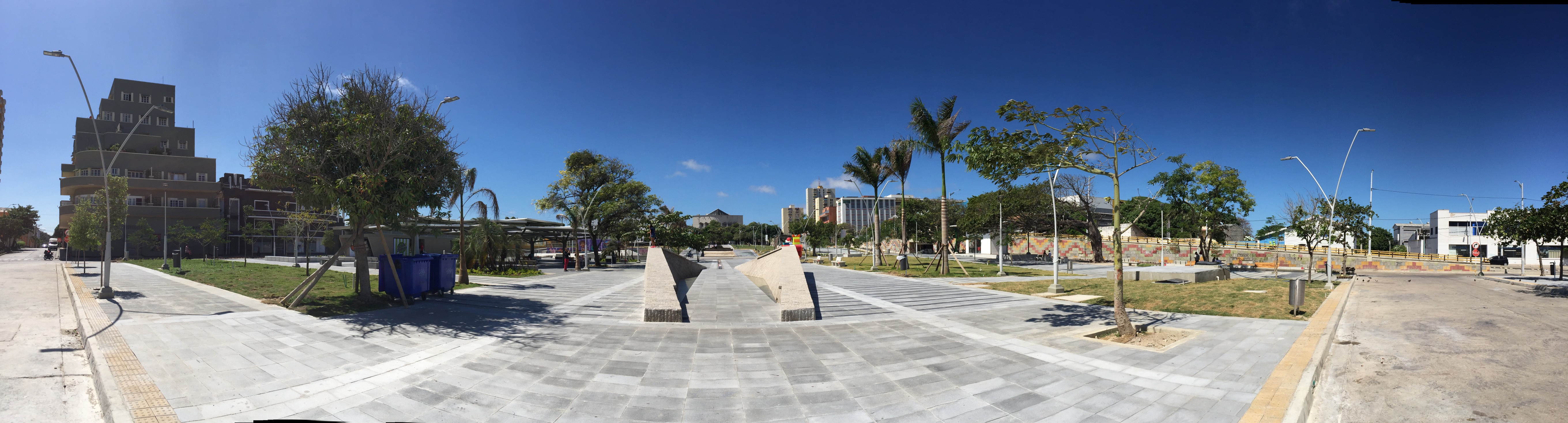 Panoramic view of plaza de la Paz, Barranquilla (east-west).